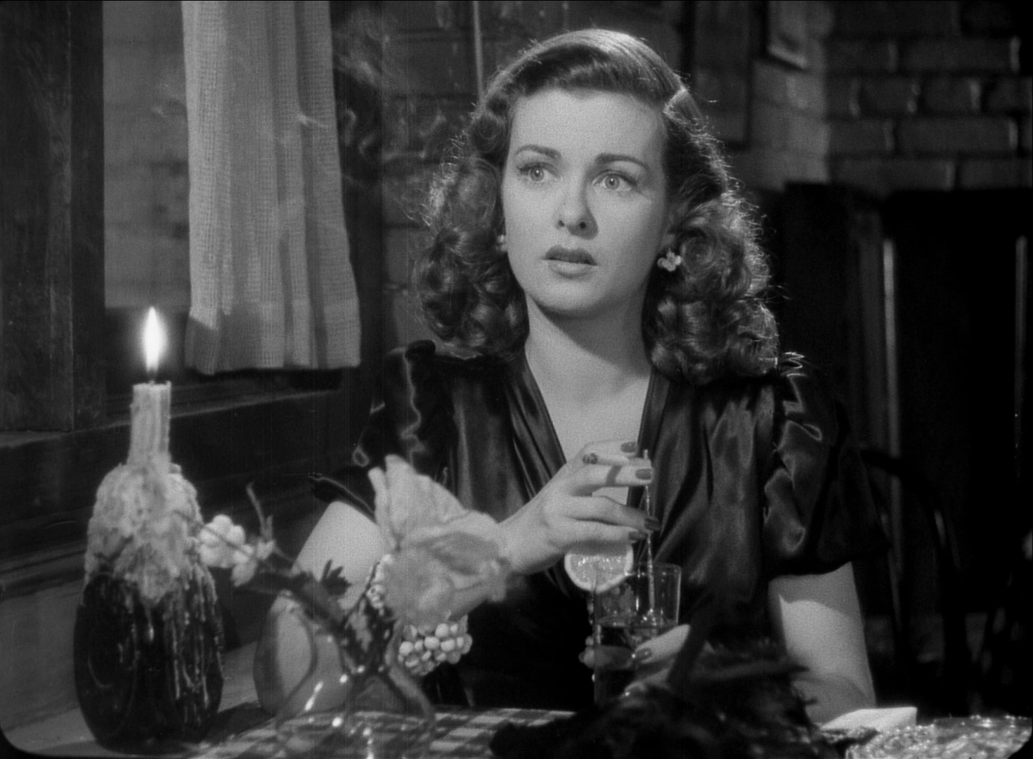 Screenshot of Joan Bennett from the film Scarlet Street